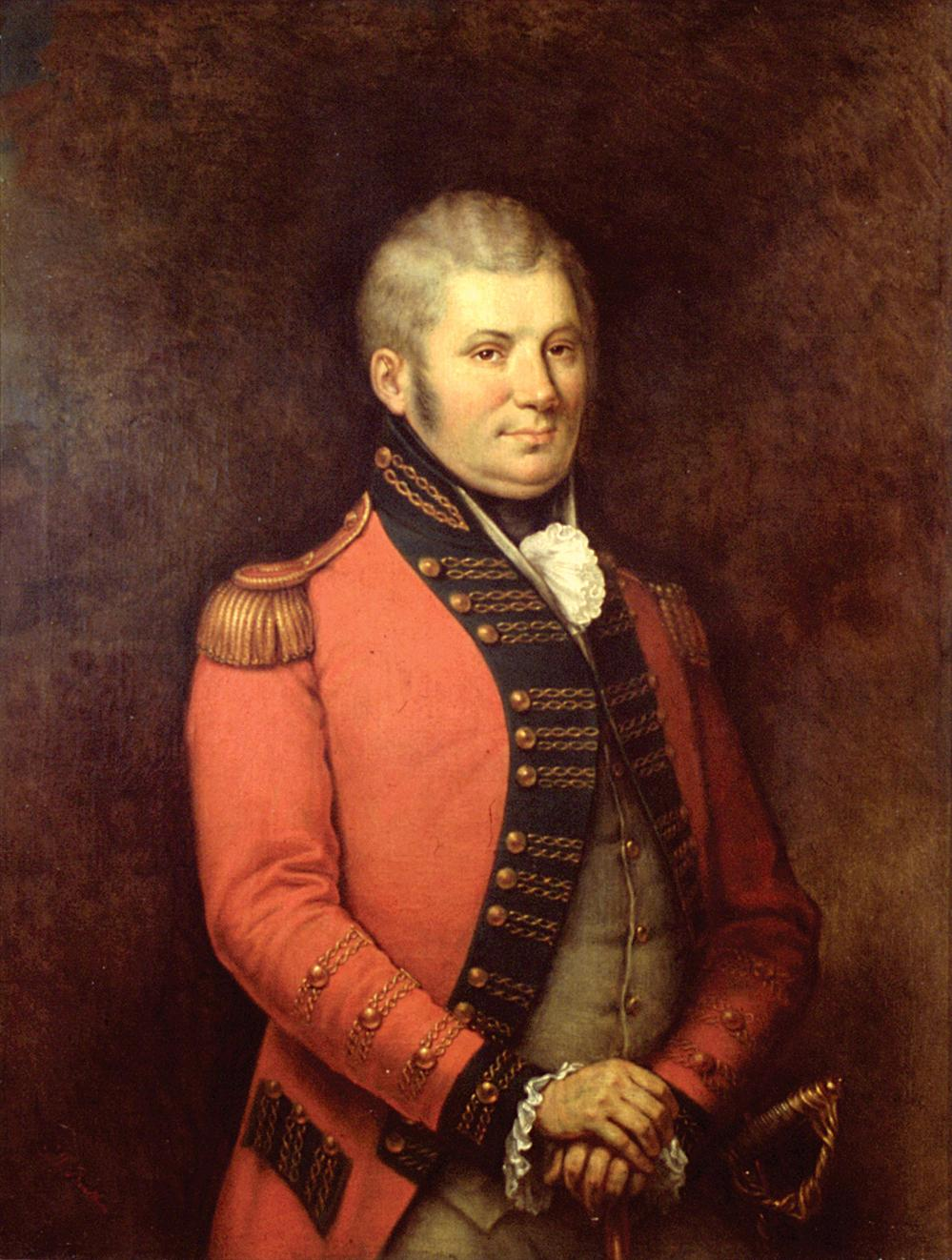 Lieutenant Governor of Upper Canada, 1791-96